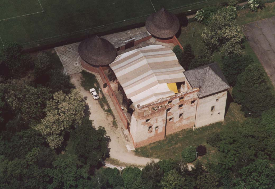 Castle - Kisvárda - Hungary - Europe